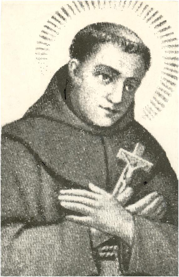 Devotional print with Blessed Amadeu da Silva, or Amadeus of Portugal.